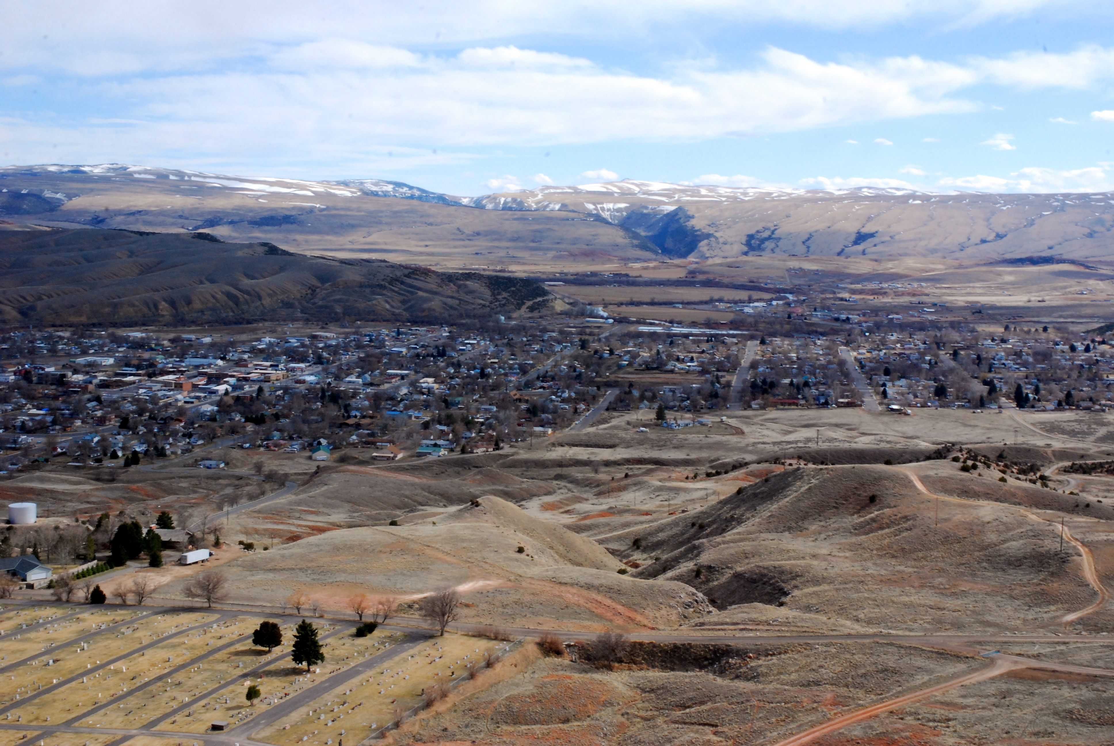 Thermopolis, Wyoming, viewed from Roundtop Mountain; Nikon D80, Nikon 17-35mm/f2.8, 31mm, f/25, 1/80s, ISO 500.